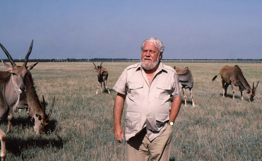 Gerald Durrell and the Eland 1985, Askania Nova, Ukraine